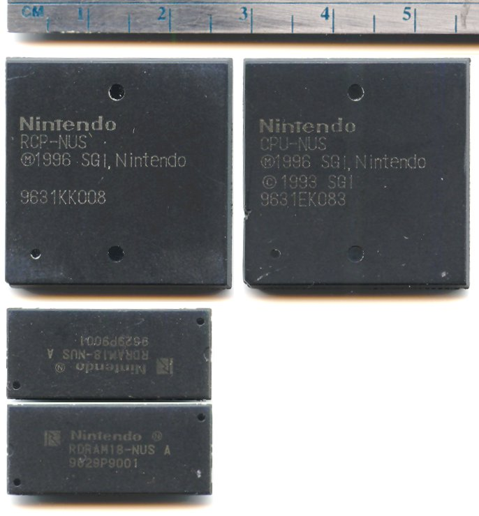 Nintendo 64 chipset: CPU, RCP, 2x RDRAM. Chips scanned by Swaaye